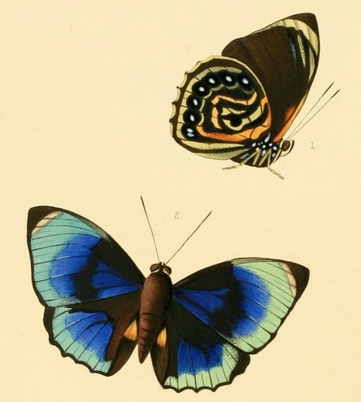 Detail of Illustrations of new species of exotic butterflies: selected chiefly from the collections of W. Wilson Saunders and William C. Hewitson. Volume III with the butterfly Prepona amydon phalcidon (Hewitson, 1855)[1]